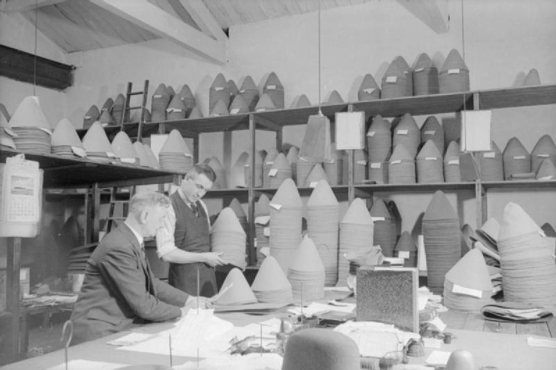 Rabbit Goes To Your Head- Hat Manufacture in Britain, 1940 Thomas Booth (seated) and Arthur Cartwright at work in the warehouse of the hat factory. All around them can be seen stacks of felt cones which are destined to become hats of all shapes and sizes. The hoods are cone shaped as this is the shape that enables the material to be stretched into shape without any damage occurring to the felt.